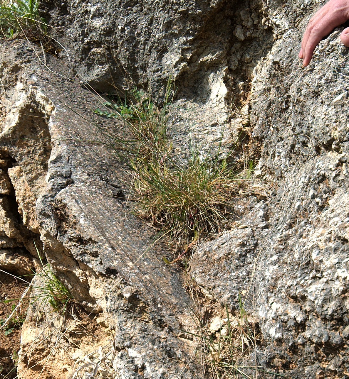 Striation as a result of a fault (around 1 km throw), in Peloponnese, Greece.